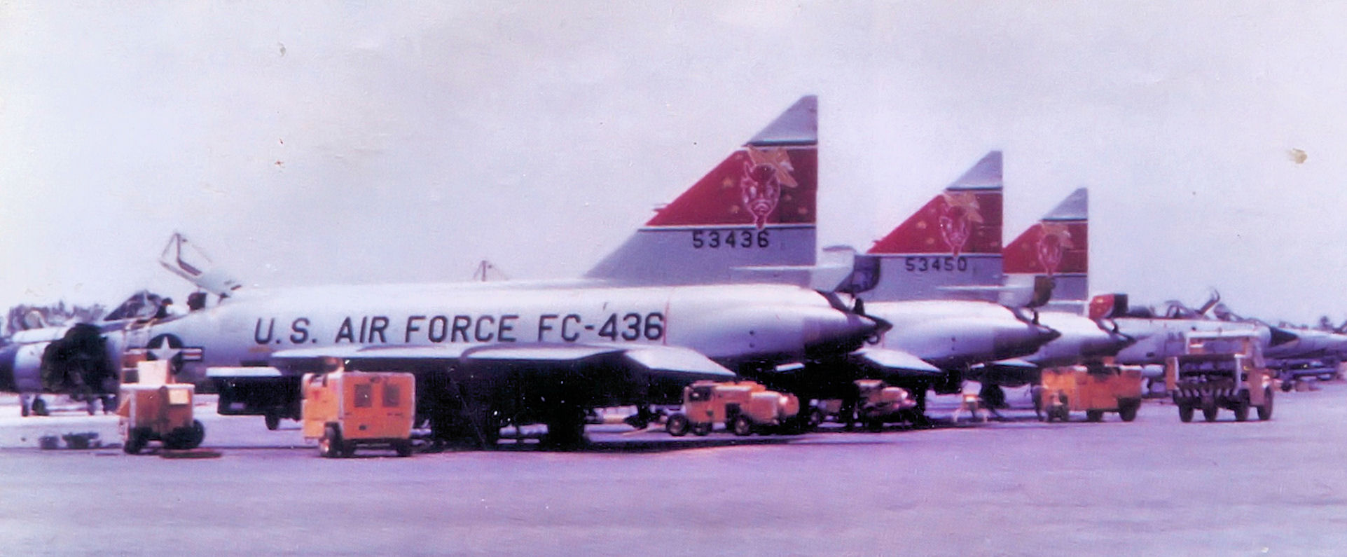 431st Fighter-Interceptor Squadron Convair F-102 Delta Daggers at Wheelus Ramp